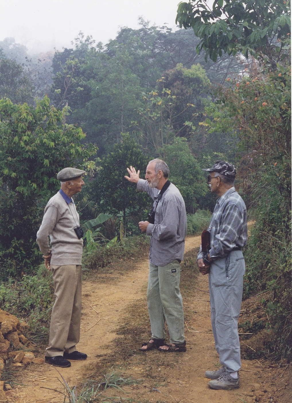 Zafar Futehally, Alan Morley and R T Chacko in Wayanad, Kerala